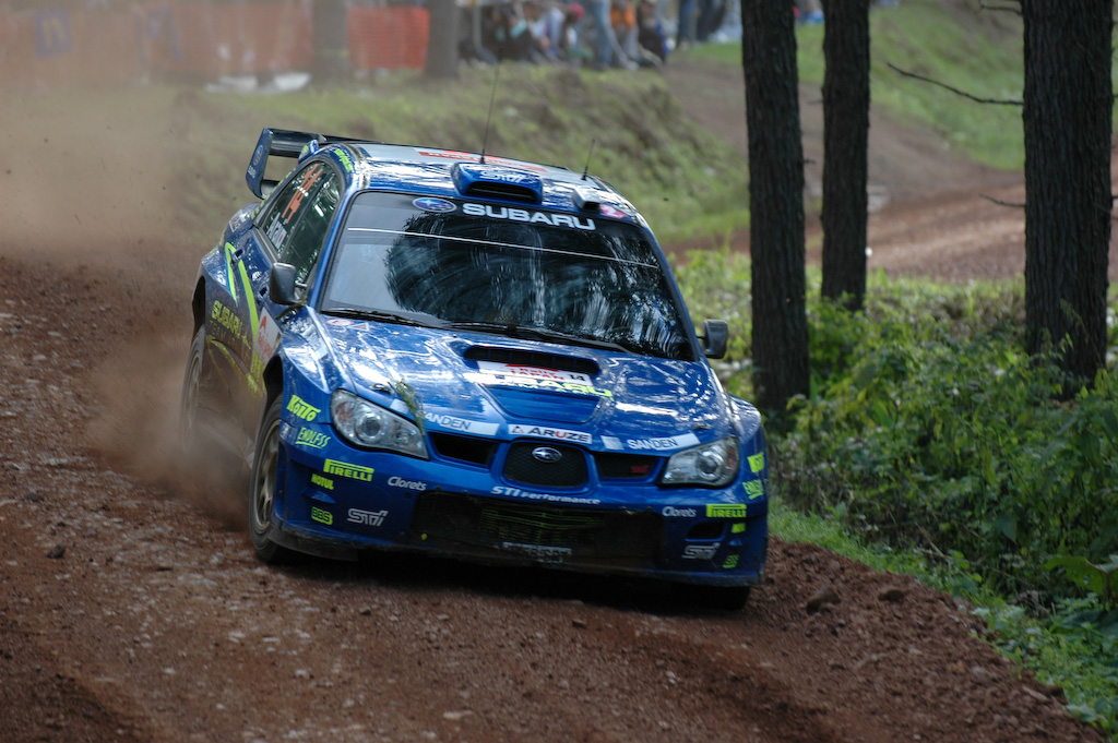 Toshihiro Arai driving his Subaru Impreza WRC at the 2006 Rally Japan.